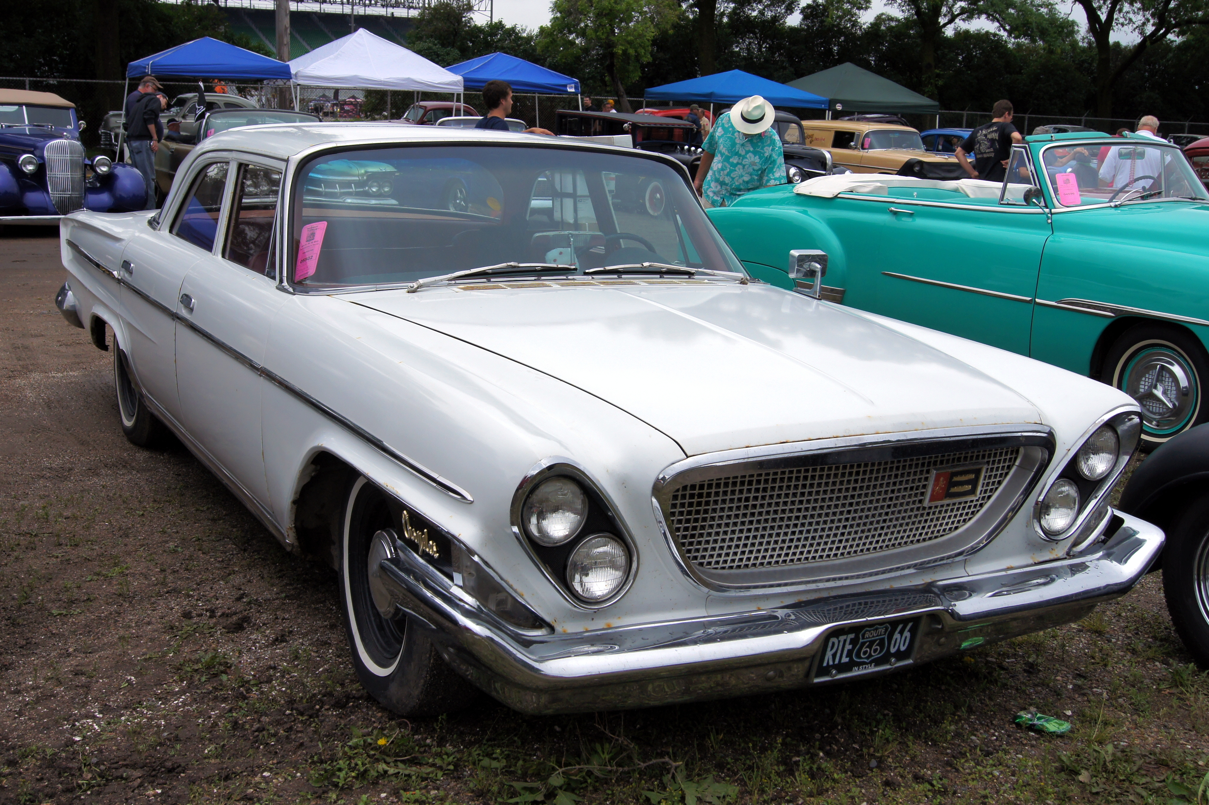 MSRA “BACK TO THE 50′s” 40th ANNIVERSARY June 21-23, 2013 State Fairgrounds St. Paul Minnesota More Car Pictures